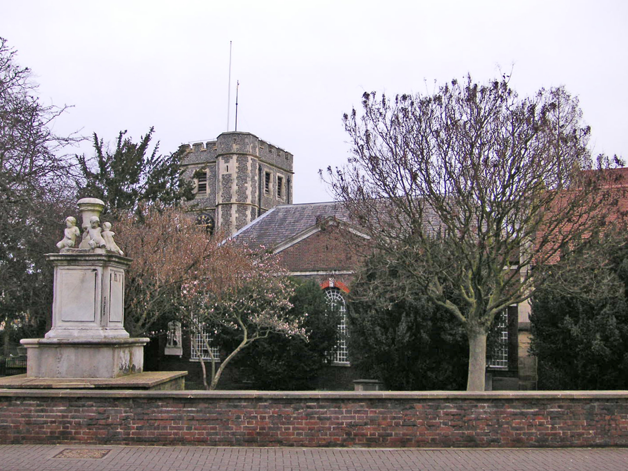 Richmond, London. The Church of St Mary Magdalene